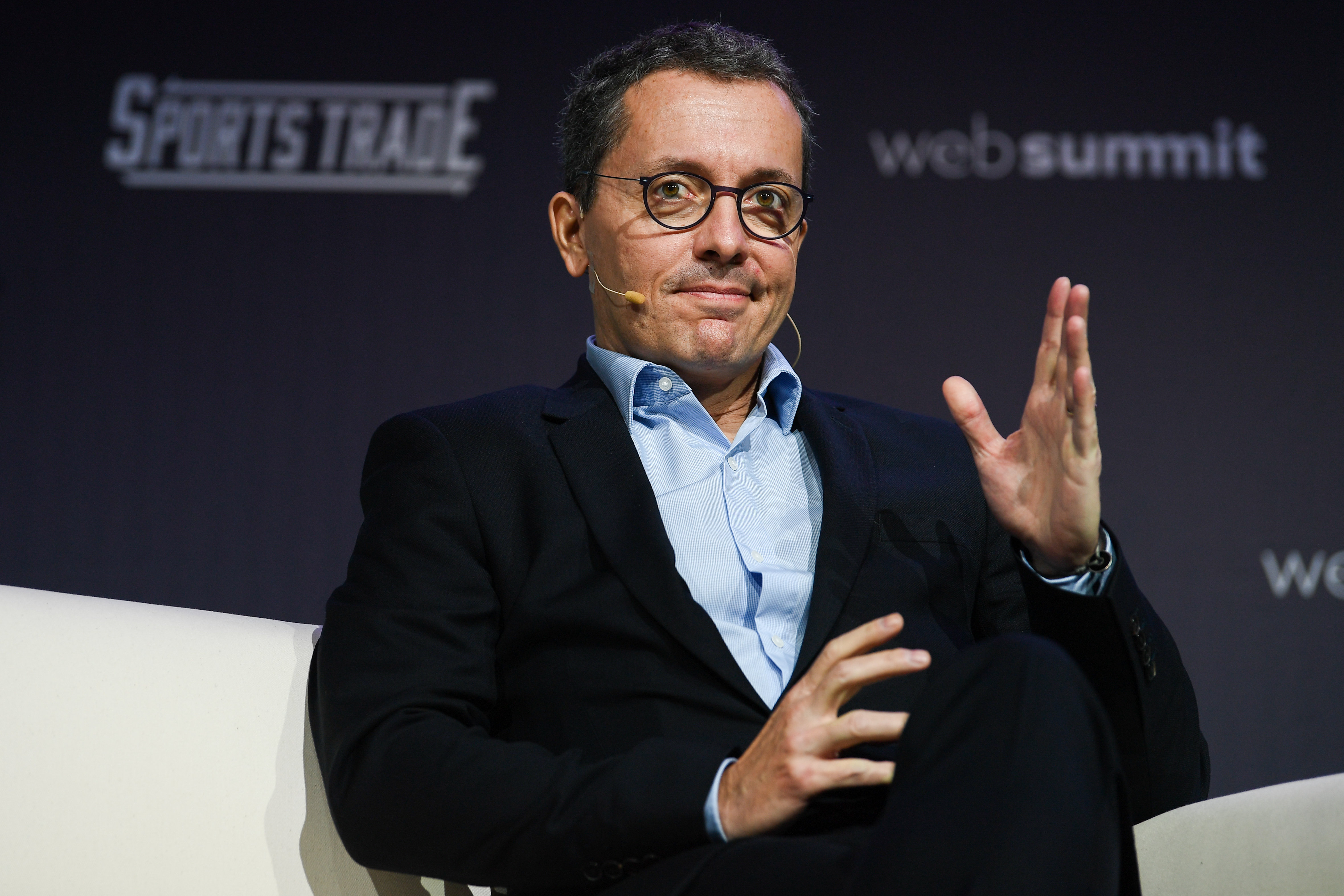 6 November 2018; Jacques-Henri Eyraud, President, Olympique Marseille, on SportsTrade Stage during the opening day of Web Summit 2018 at the Altice Arena in Lisbon, Portugal. Photo by Stephen McCarthy/Web Summit via Sportsfile